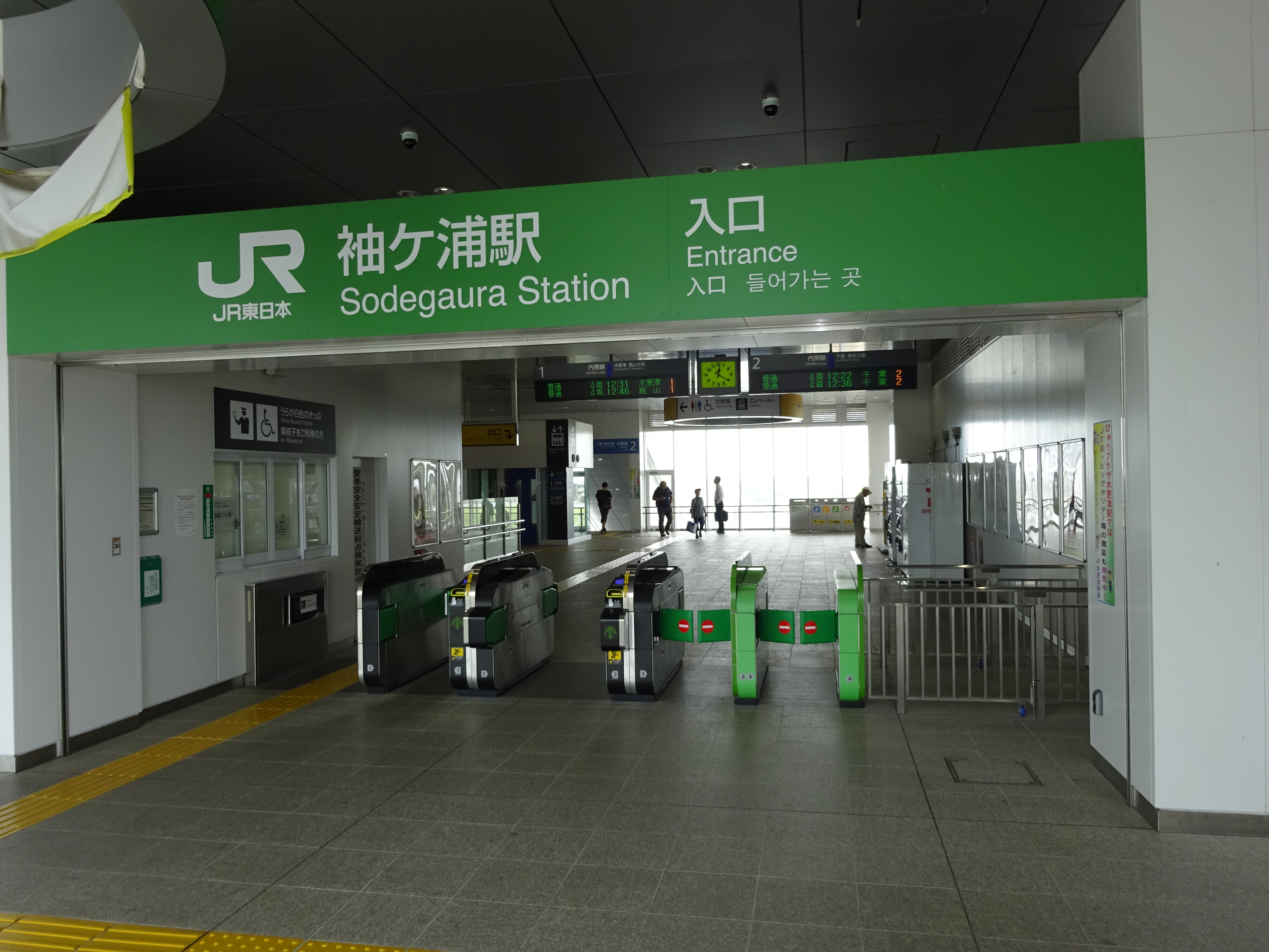 Ticket barriers of Sodegaura Station